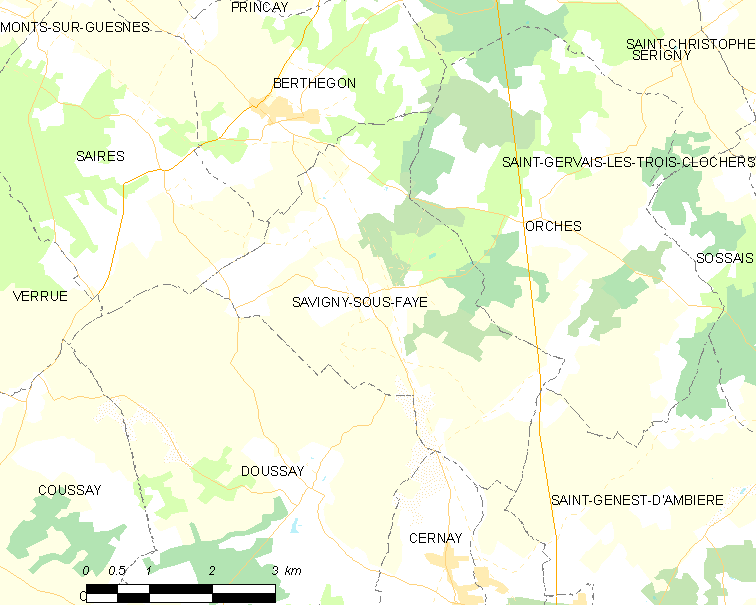 Map of French municipality Savigny-sous-Faye